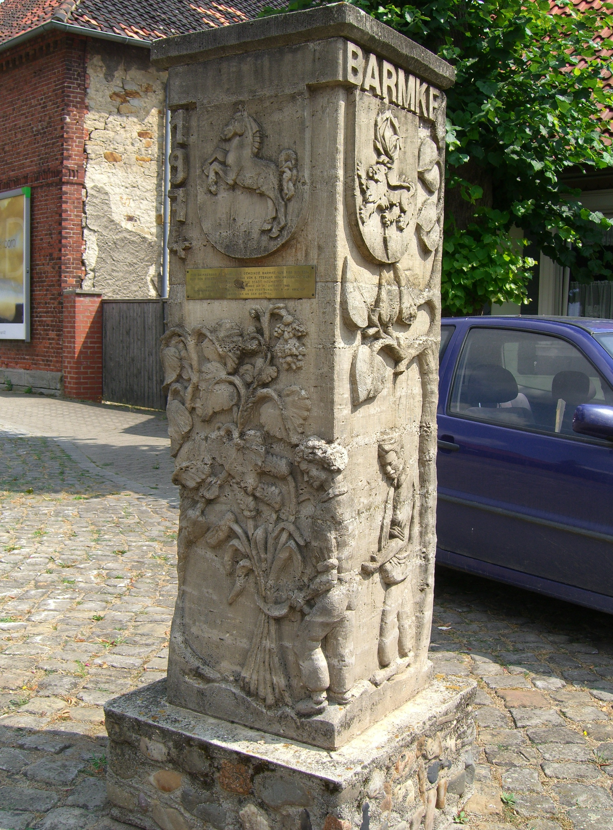 memorial stone in Helmstedt-Barmke